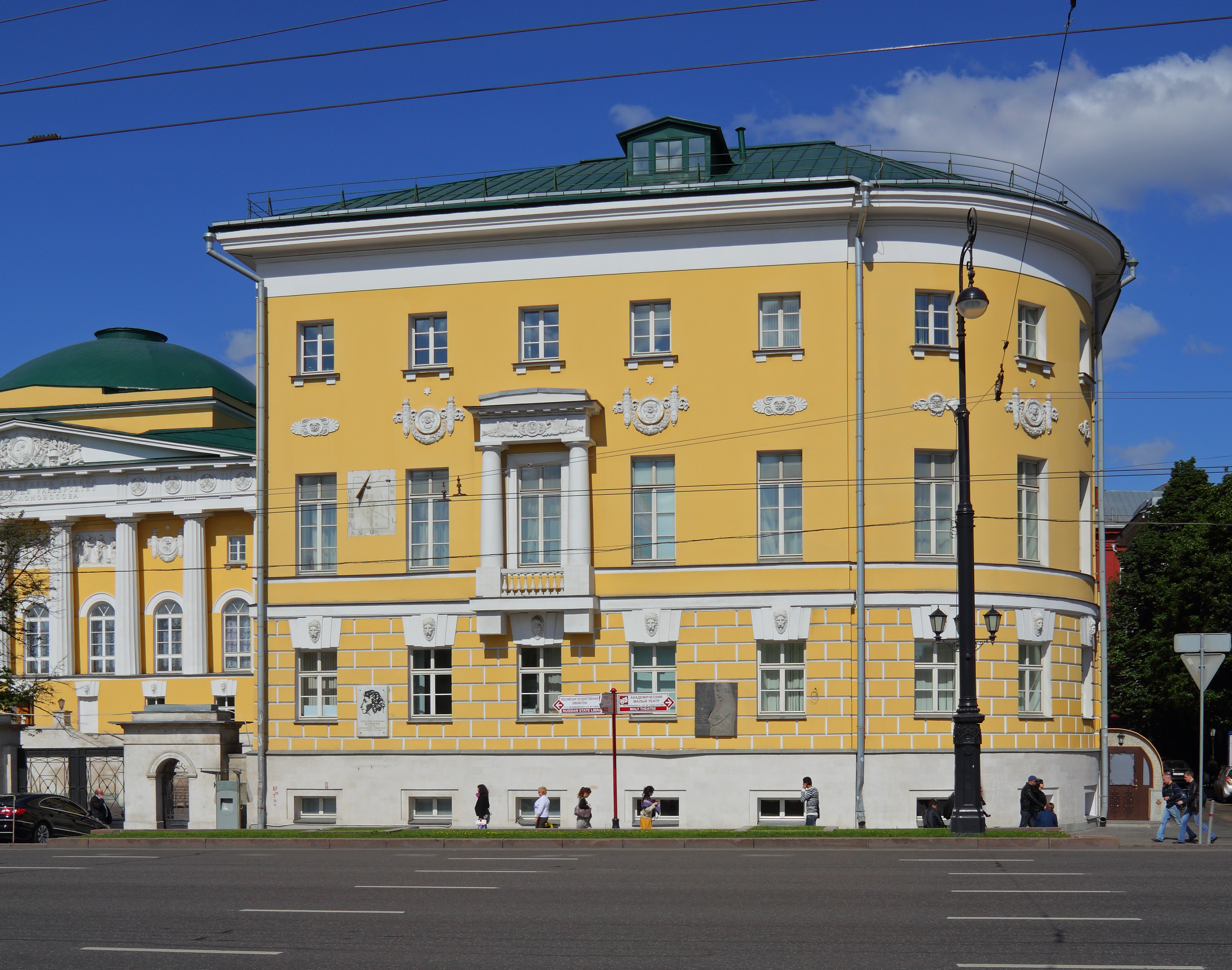 Moscow, Russia. Mokhovaya Street, old buildings of the Moscow State University.